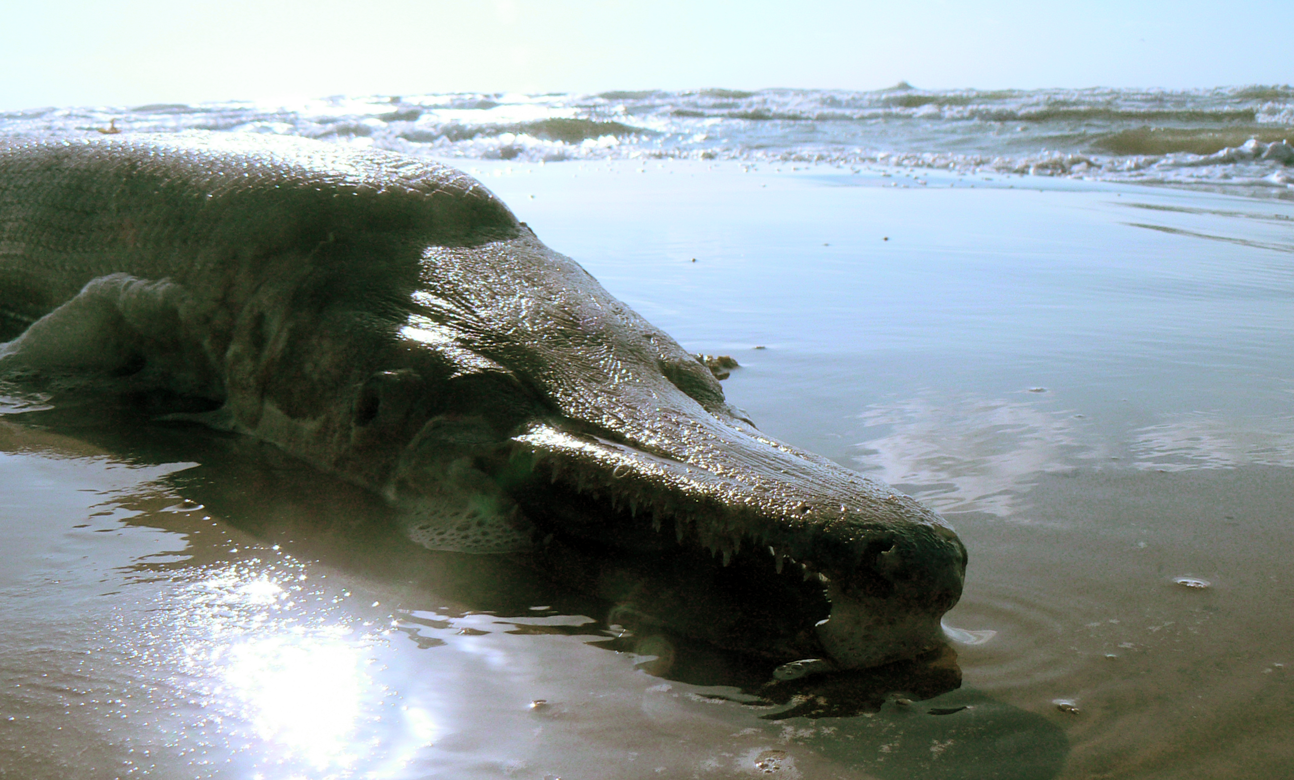 We came across this dead alligator gar on the beach during one of our walking sea turtle patrols. This was shortly after a storm in the Gulf back in late April.